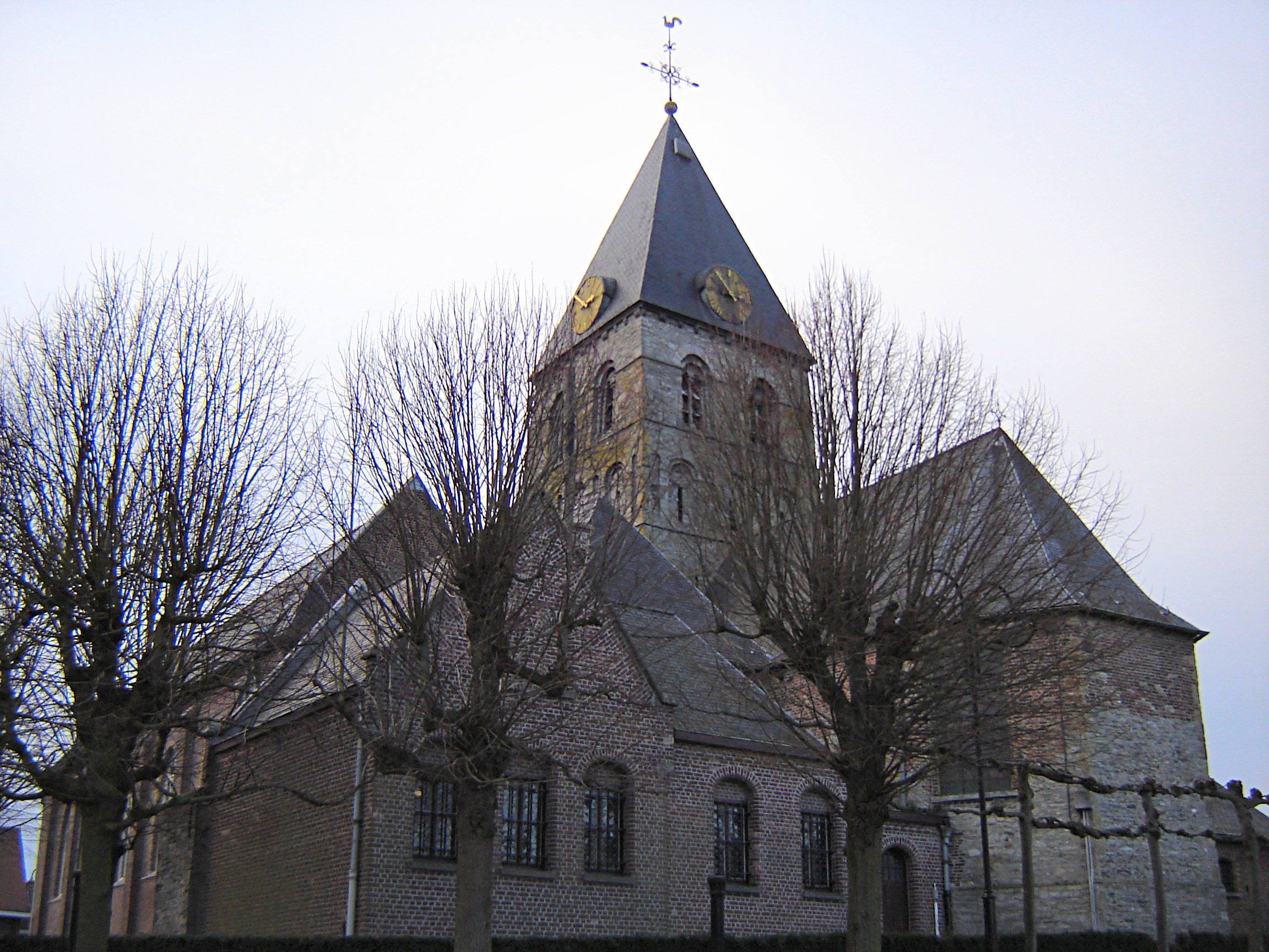 Church of Saint John Baptist in Anzegem. Anzegem, West Flanders, Belgium